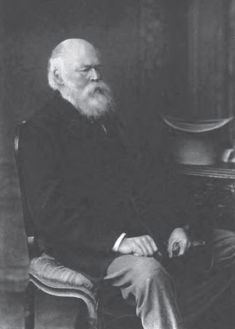 The Right Honourable Sir John Charles Molteno. A photograph taken in 1882 after his retirement.